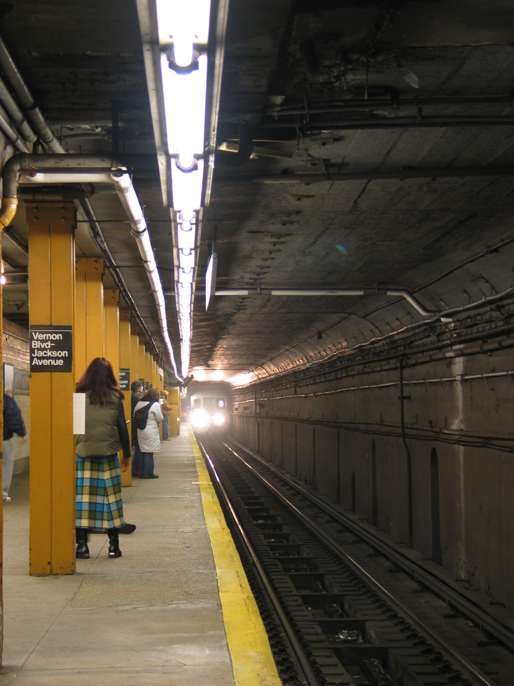 7 train entering Vernon Boulevard / Jackson Avenue station.